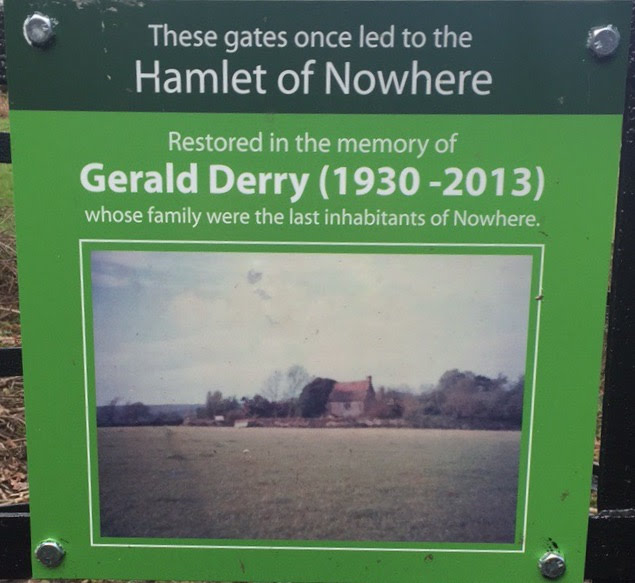 A plaque erected in Nailsea, North Somerset, at the location of a former hamlet known as Nowhere. The plaque reads: "These gates once led to the Hamlet of Nowhere Restored in the memory of Gerald Derry (1930-2013) whose family were the last inhabitants of Nowhere."